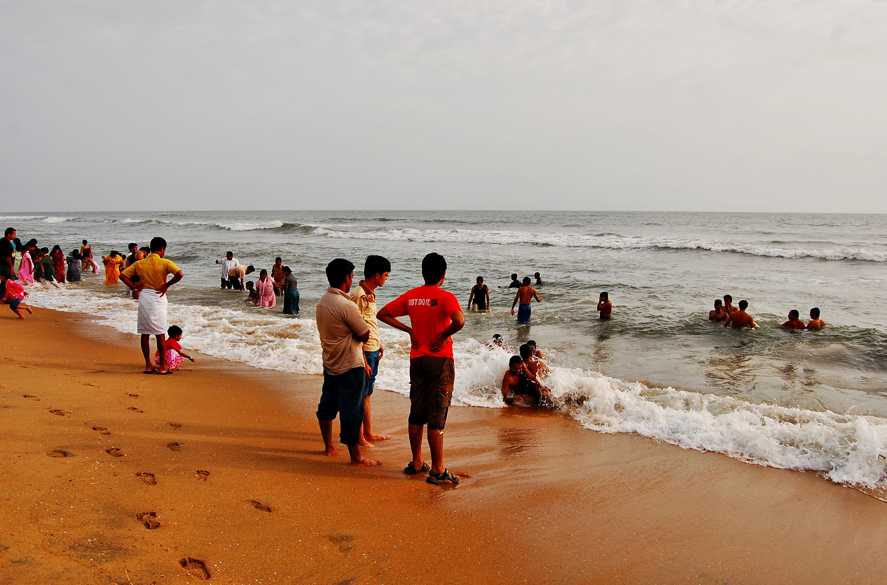 Cherai beach, Kerala, India